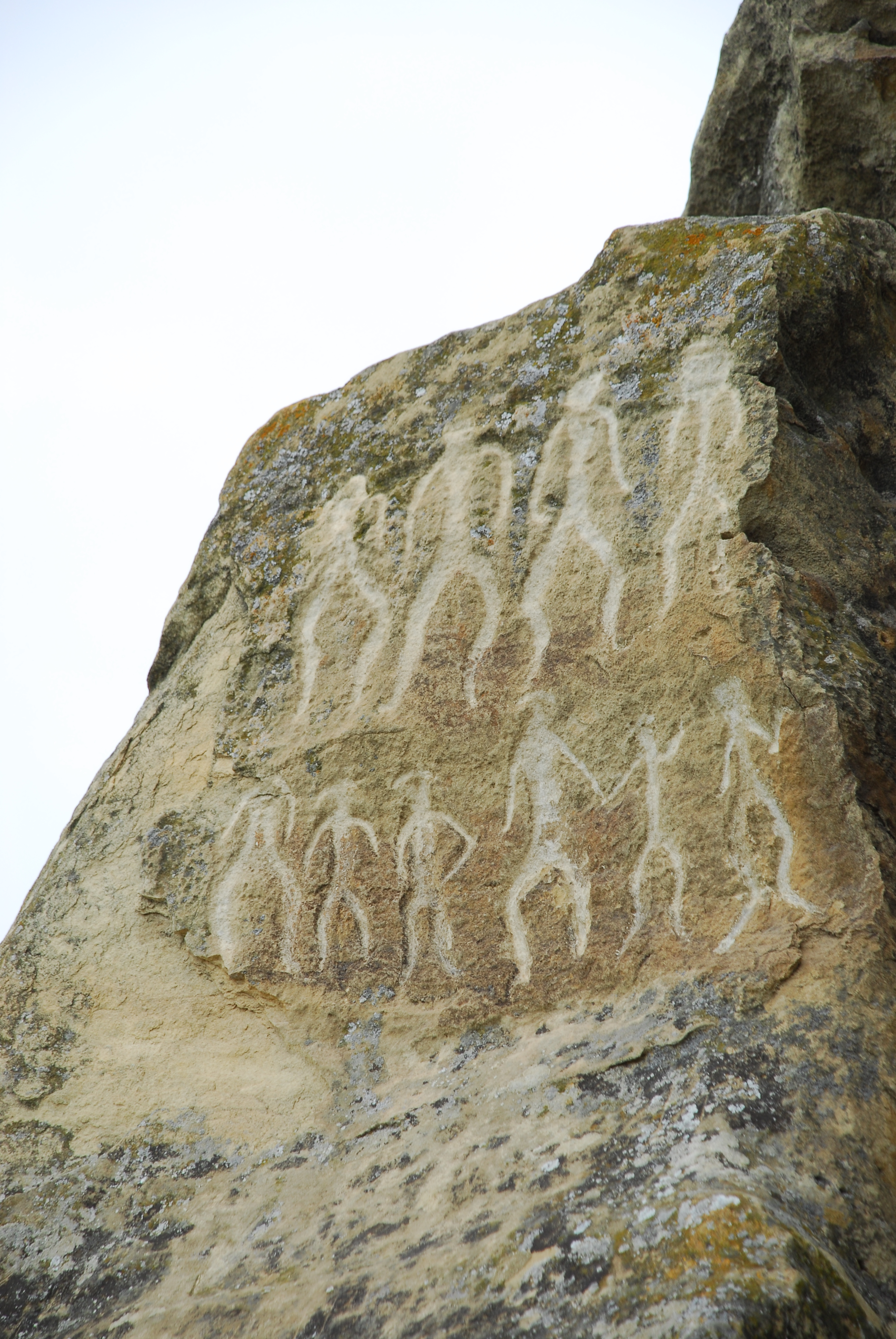 Rock paintings in Gobustan State Reserve, Azerbaijan.